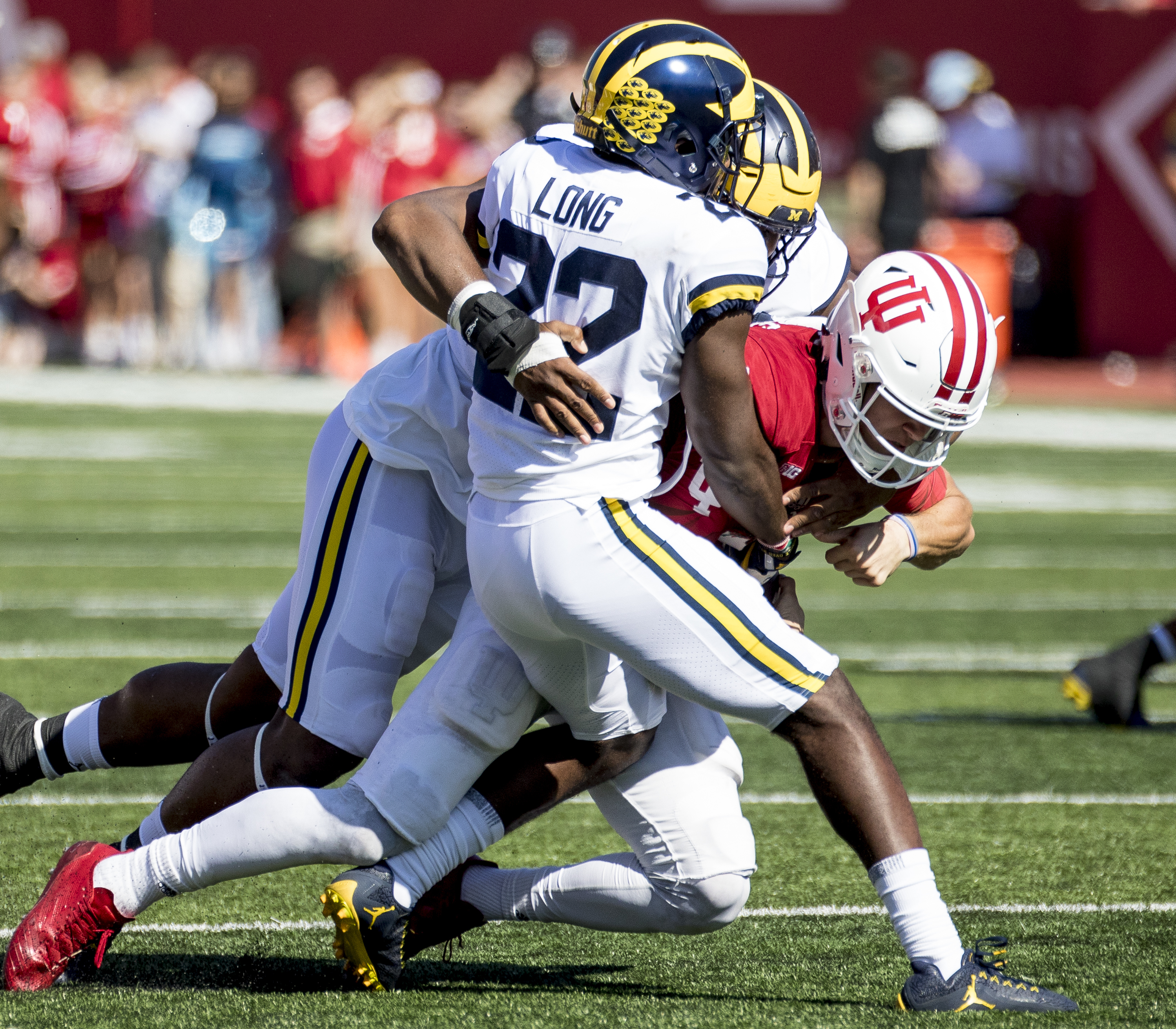 David Long of Michigan